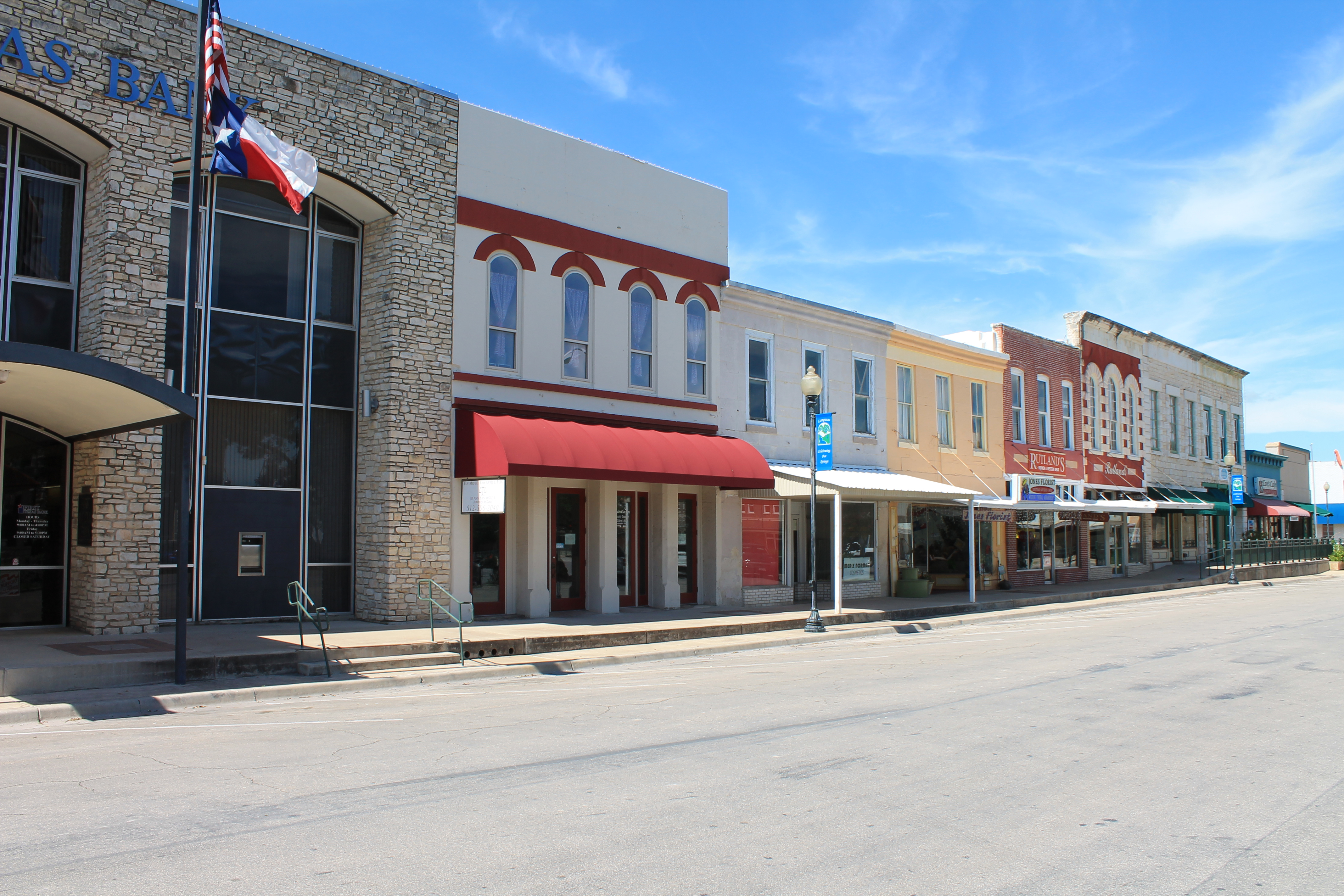 Lampasas Downtown Historic District, north side of the 500 block of E. Third St.